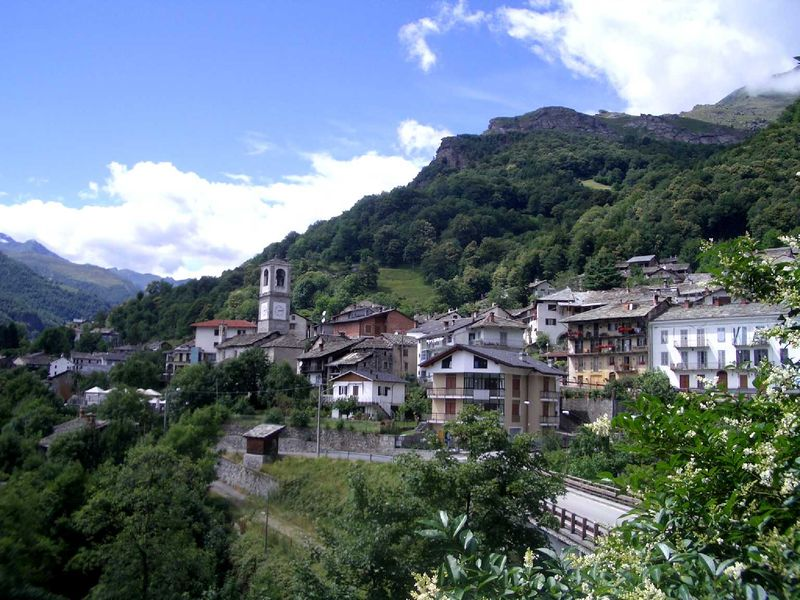 View of Traversella, Traversella, Torino, Italy